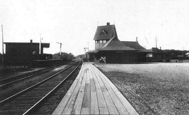 Walpole Union Station around 1890. The source claims 1900, but NRHP documentation lists 1890, which fits with the pre-1893 signal tower. The fright shed is at left and the express office at far right.